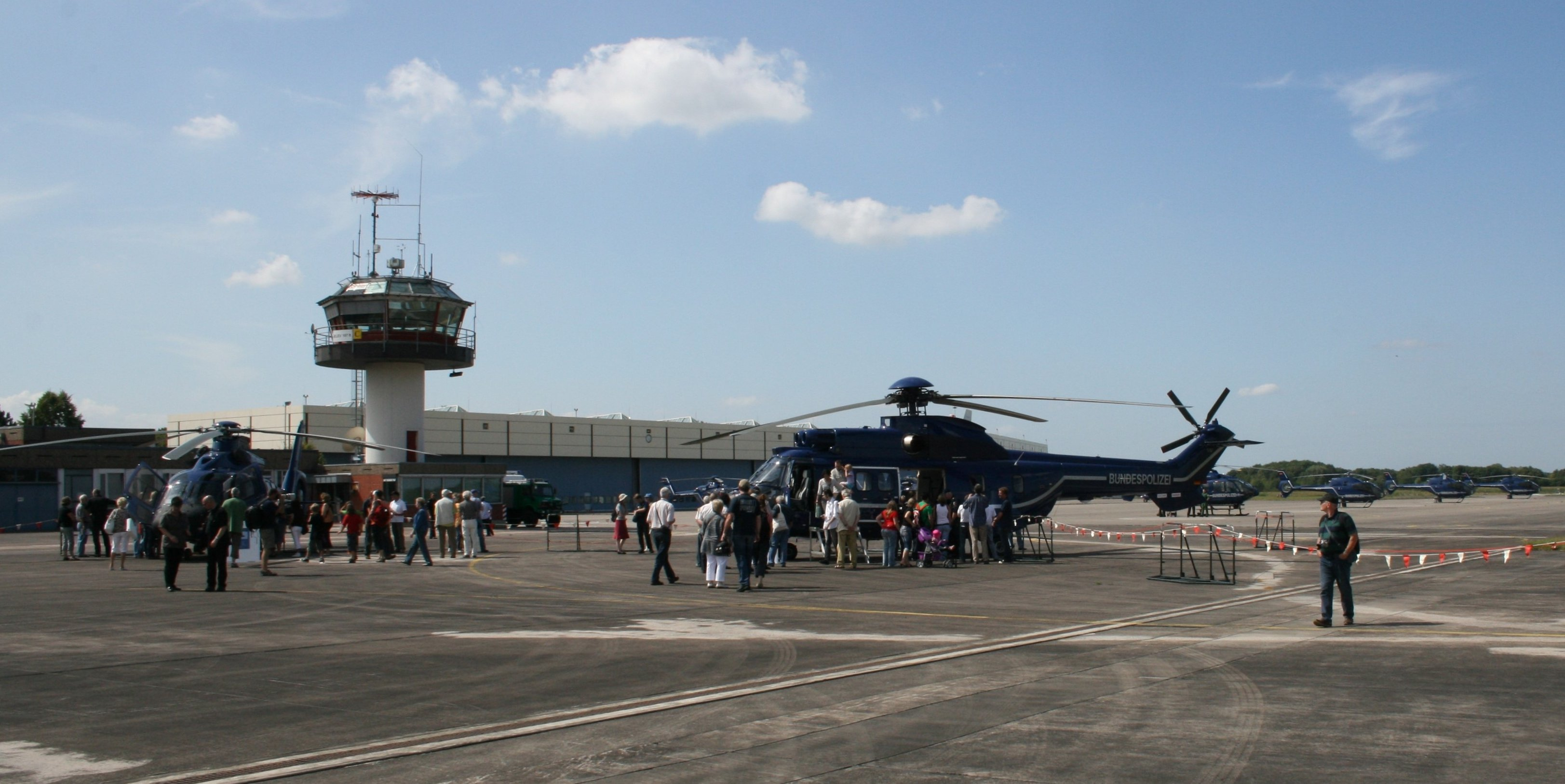 tower and hangars with helicopters, german federal police flying squadron region west on airfield Bonn-Hangelar; open day/airport party and airshow